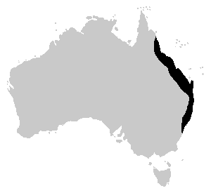 Distribution of the Eastern Dwarf Tree Frog, Litoria fallax.